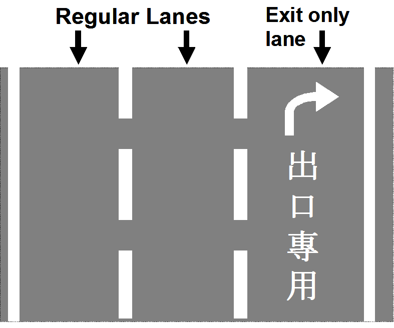 A diagram for identifying the exit-only lane on a Taiwan freeway. Diagram created Sept. 3, 2005 by Allen Timothy Chang using Microsoft Powerpoint and Paint.